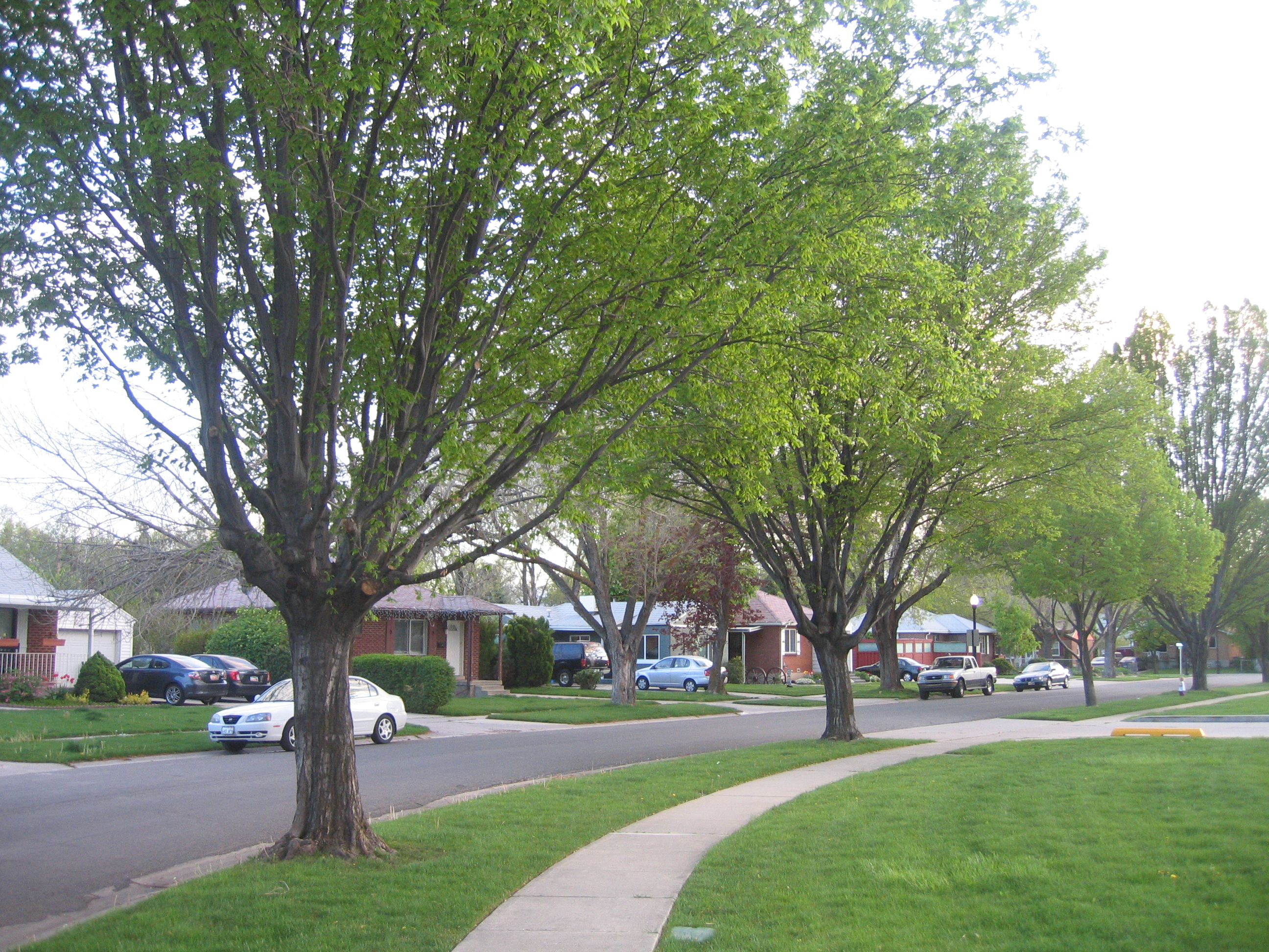 Picture Drive, Rose Park, Salt Lake City, Utah.